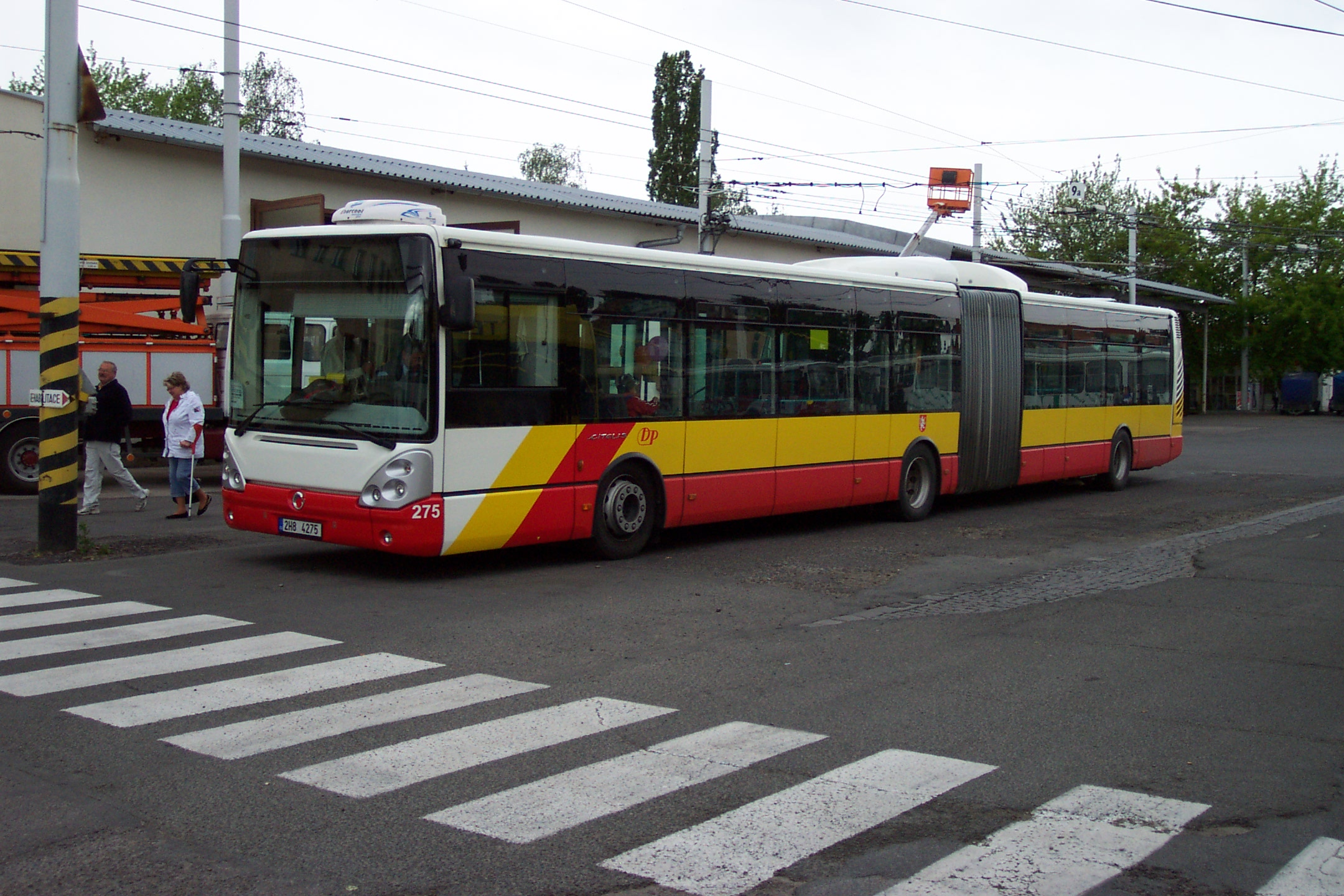 Bus type Irisbus Citelis (articulated, Hradec Králové) at the 55 years of trolleybus transport in Pardubice